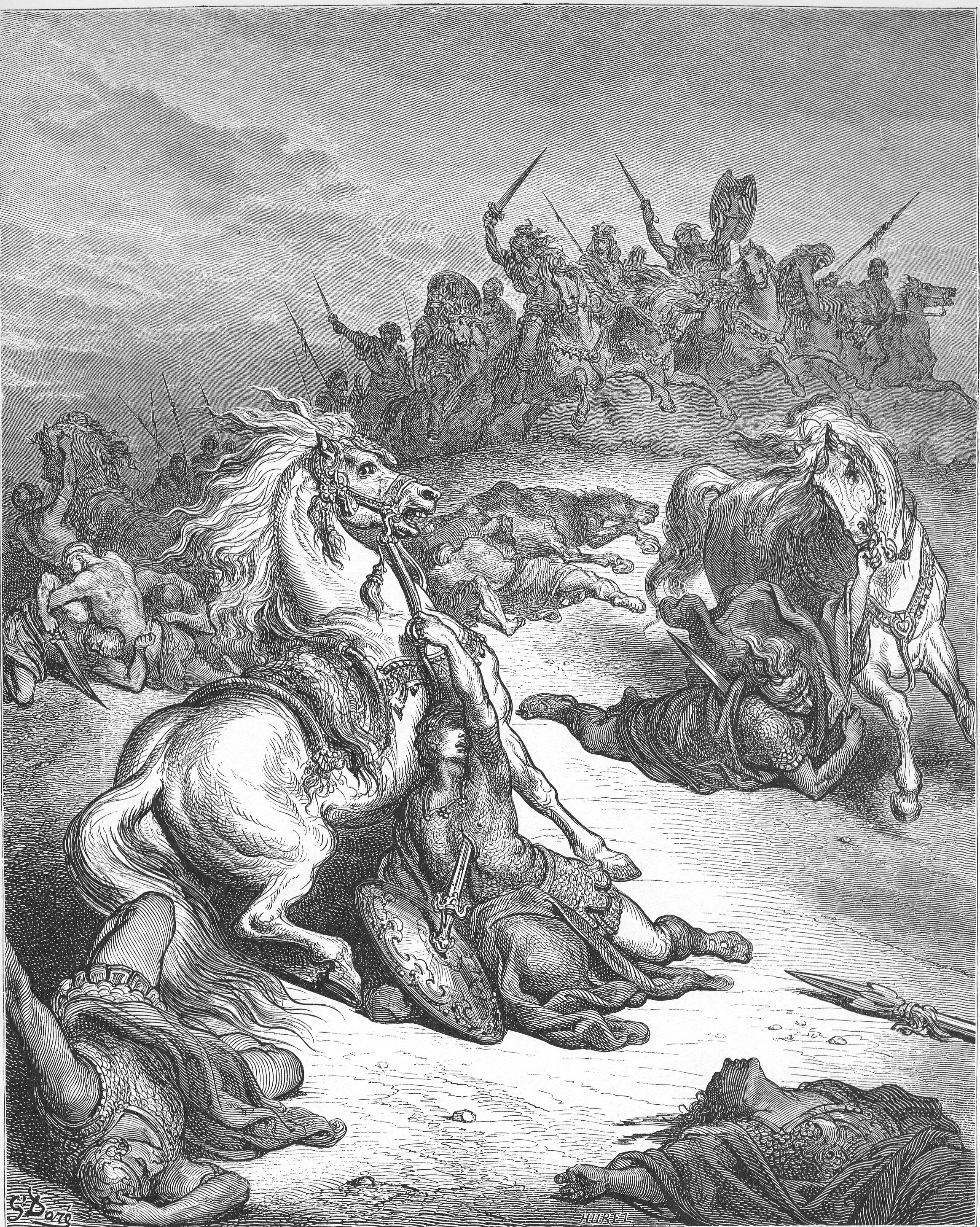 The Death of Saul (1Sam. 31:1-6)